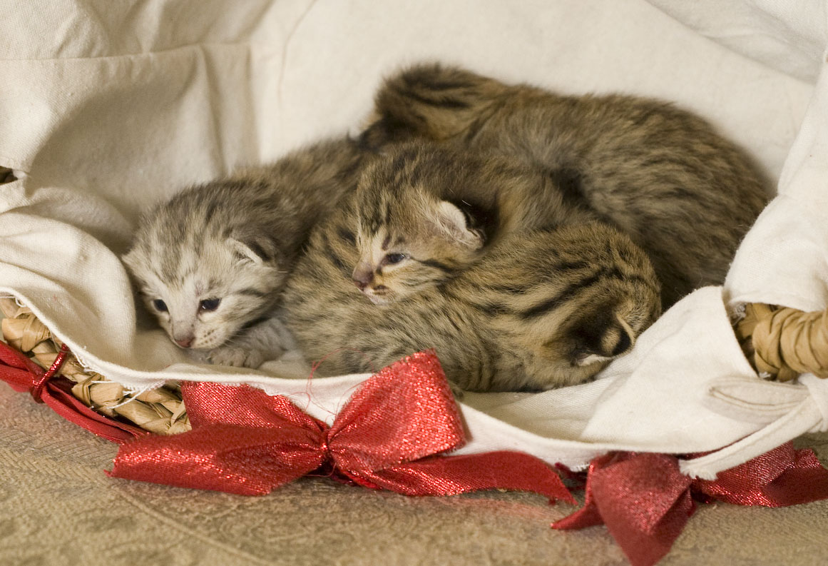 This is a photograph of Savannah kittens, generation F2 from TICA name: CactusRun Ruby of SpottedLove (aka "Ruby"). These kittens are one week old. There is one silver female with the others being brown spotted tabby in color. There are 3 females and one male in the photo. Ruby, the mother has a few videos on youtube on the "lifeatthesharpend" youtube channel (Ruby has a thing for my head, Ruby jumping 8 feet, How to pill an F1 Savannah,...)